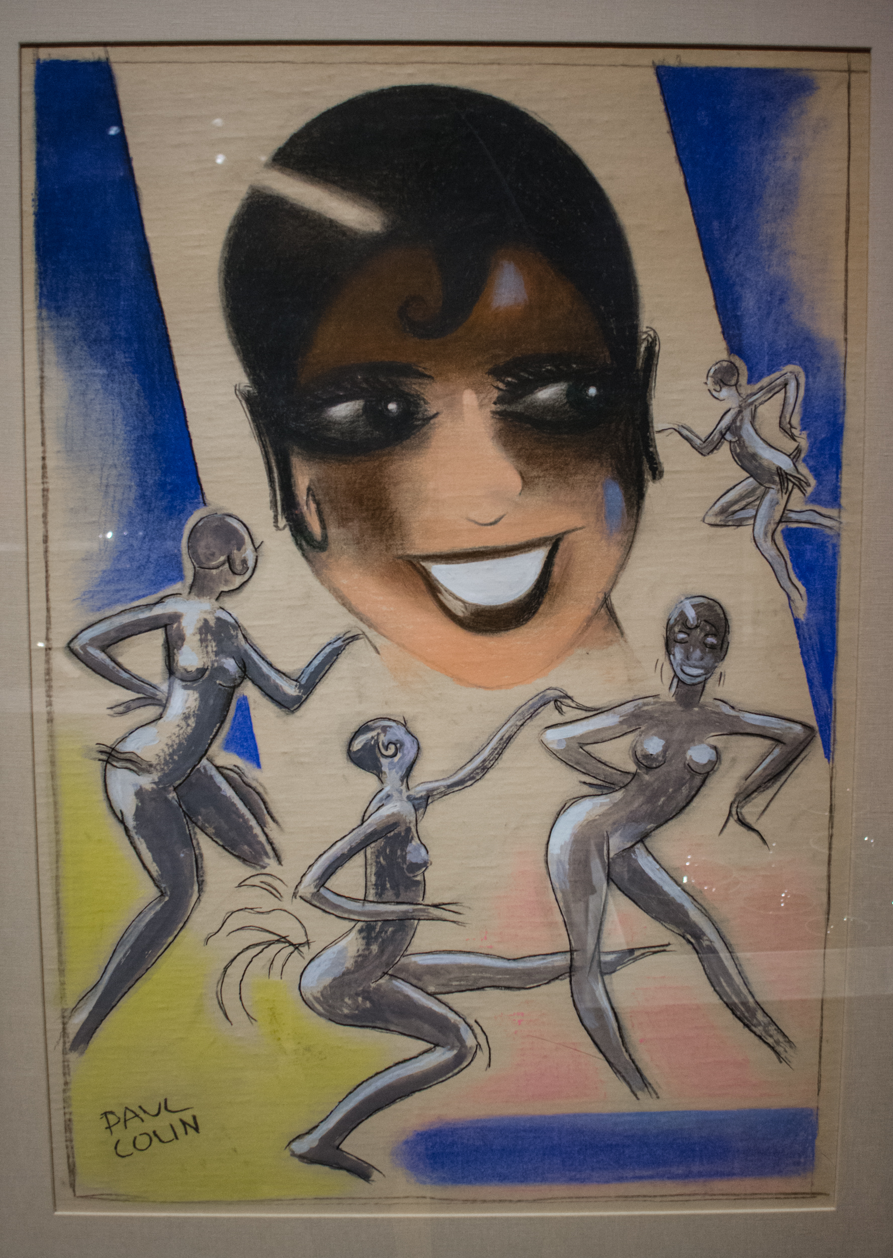 Painting of Josephine Baker by Paul Colin, on display as part of the "Jazz Age" exhibit at the Cleveland Museum of Art in Cleveland, Ohio, in the United States. Paul Colin (1892-1985) was a French poster artist. Born in Nancy, he was fascinated by painting as a child. At the age of 15, he became an apprentice at a print shop and enrolled in Nancy's École des Beaux-Arts when he was 18. There he studied painting under Eugène Vallin. He moved to Paris in 1912, and developed a style of Cubism mingled with Surrealism, caricature, and Jazz Age style. In 1925, he was asked to design a poster for the "Revue Nègre" at the Music Hall des Champs-Élysées. This musical review starred African American singer and dancer Josephine Baker. Colin's poster made him famous. Colin became Baker's lover. Over the next 40 years, he designed posters, sets, and costumes for the theater as well as book covers and advertisements. Although he produced almost nothing during World War II, he made posters promoting the Resistance after 1944. This 1930 painting, titled "Columbia", is of gouache and crayon on paper. CMAJazzAge